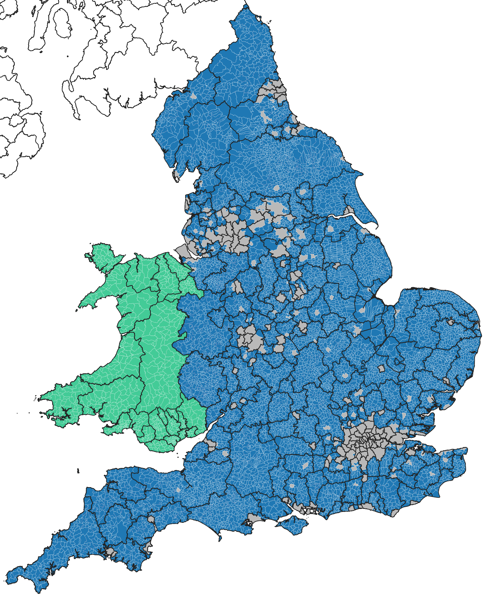 Map of English parishes and Welsh Communities. Contains Ordnance Survey data © Crown Copyright and database right 2010 Maps may be created from Ordnance Survey Opendata and used for any purpose